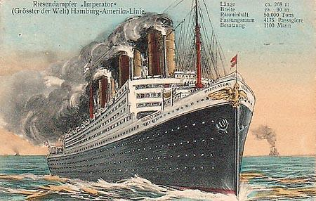 Drawing of the SS Imperator